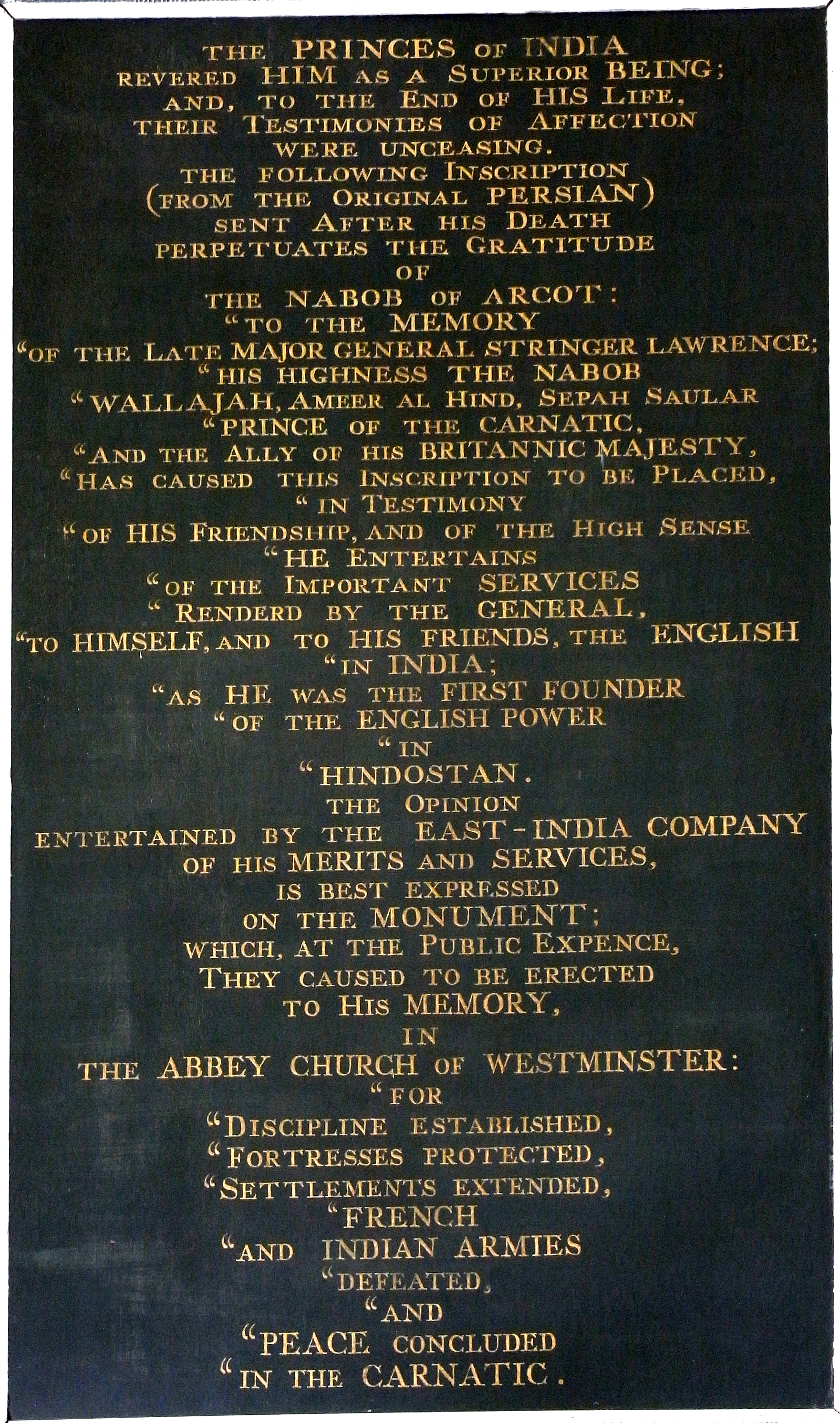 Biographical tablet (2 of 3) dedicated to General Stringer Lawrence (1697-1775), erected on the Haldon estate in 1788 together with the "Lawrence Tower" (alias "Haldon Belvedere") in which it is housed, in his memory by his friend Sir Robert Palk, 1st Baronet (1717-1798), of Haldon House, Dunchideock, Devon. Text: The princes of India revered him as a superior being and to the end of his life their testimonies of affection were unceasing. The following inscription (from the original Persian) sent after his death perpetuates the gratitude of the Nabob of Arcot: To the memory of the late Major-General Stringer Lawrence. His Highness the Nabob Wallajah, Ameer Al Hind, Sepah Saular, Prince of the Carnatic and ally of His Britannic Majesty, has caused this inscription to be placed in testimony of his friendship and of the high sense he entertains of the important services rendered by the General to himself and to his friends the English in India. As he was the first founder of the English power in Hindostan the opinion entertained by the East-India Company of his merits and services is best expressed on the monument which at the public expence they caused to be erected to his memory in the Abbey Church of Westminster: For Discipline Established, Fortresses Protected, Settlements Extended, French and Indian Armies Defeated, and Peace Concluded in the Carnatic.